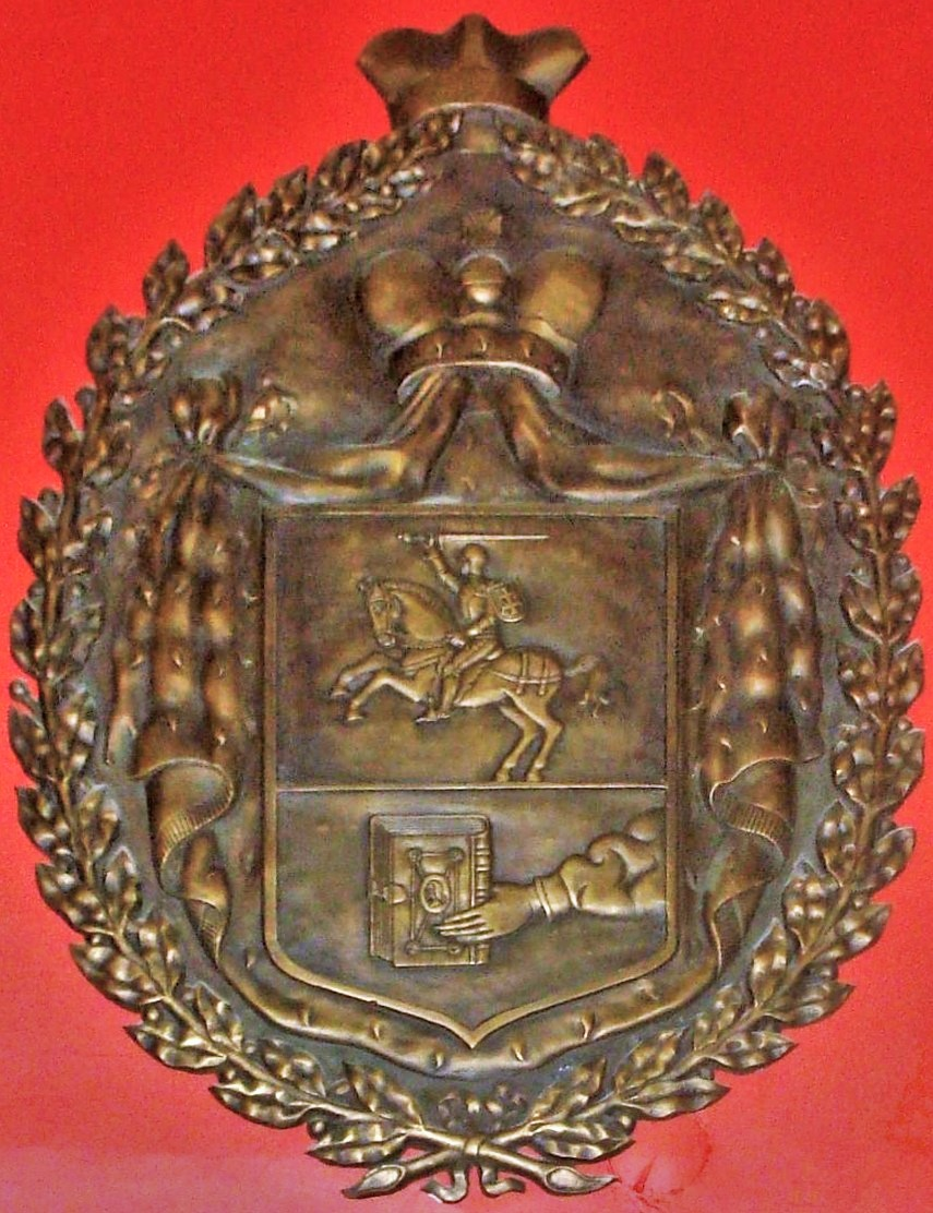 Coat of arms of the Vilnius University. Bas-relief in the Aula